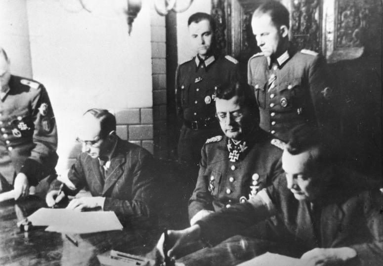 Ceremony of signing the Act of Surrender of Warsaw Uprising. From the left: Colonel Kazimierz Iranek-Osmecki „Heller”, SS-Obergrupenführer Erich von dem Bach-Zelewski, Lieutenant Colonel Zygmunt Dobrowolski „Zyndram”. This photo was taken in Bach-Zelewski's headquarters in Ożarów Mazowiecki.